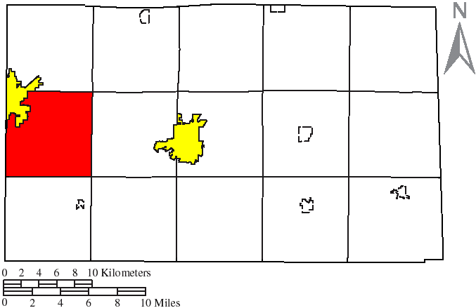 Made by the US Census and modified by myself